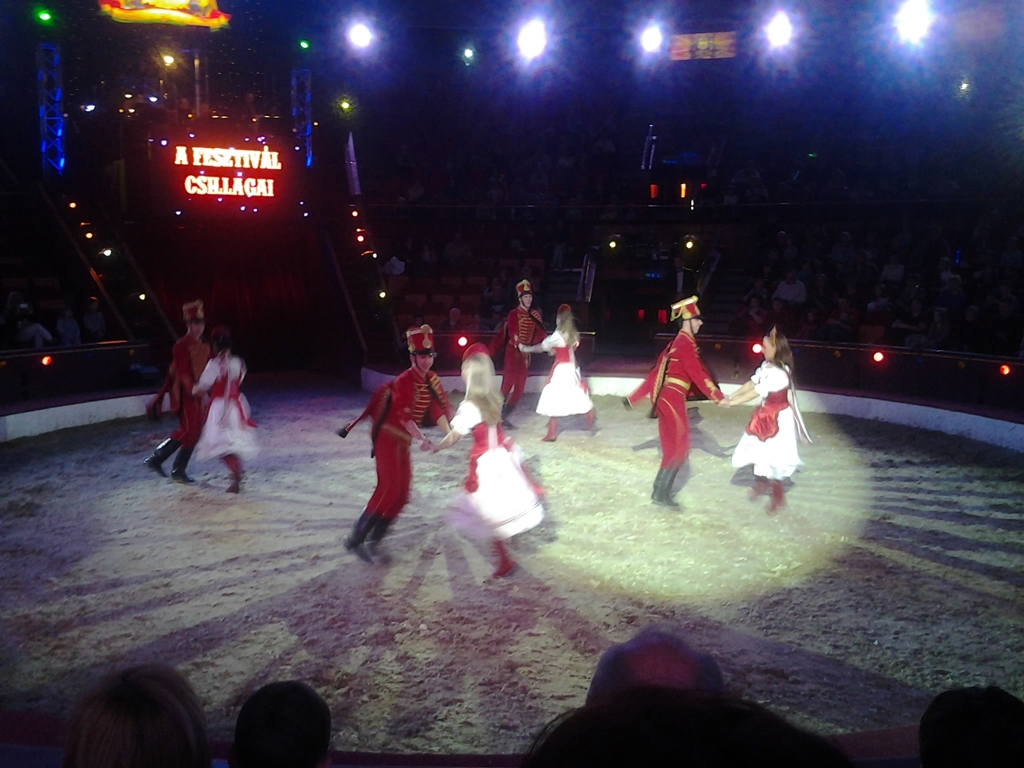 Hungarian dancers in Capital Circus of Budapest.